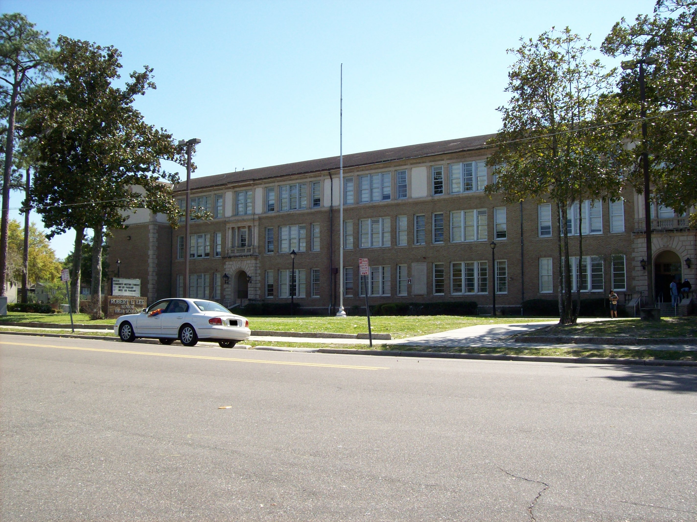 Front of Robert E. Lee High School in Jacksonville, Florida. Photograph by Subwayatrain.